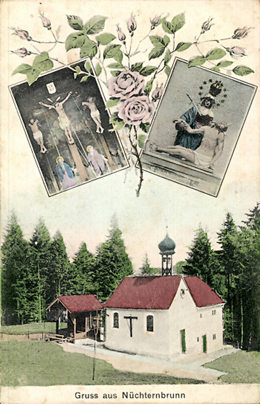 historical postcard (1908), showing the Nüchternbrunn chapell on the Taubenberg in the Miesbach area of upper Bavaria together with interior sights